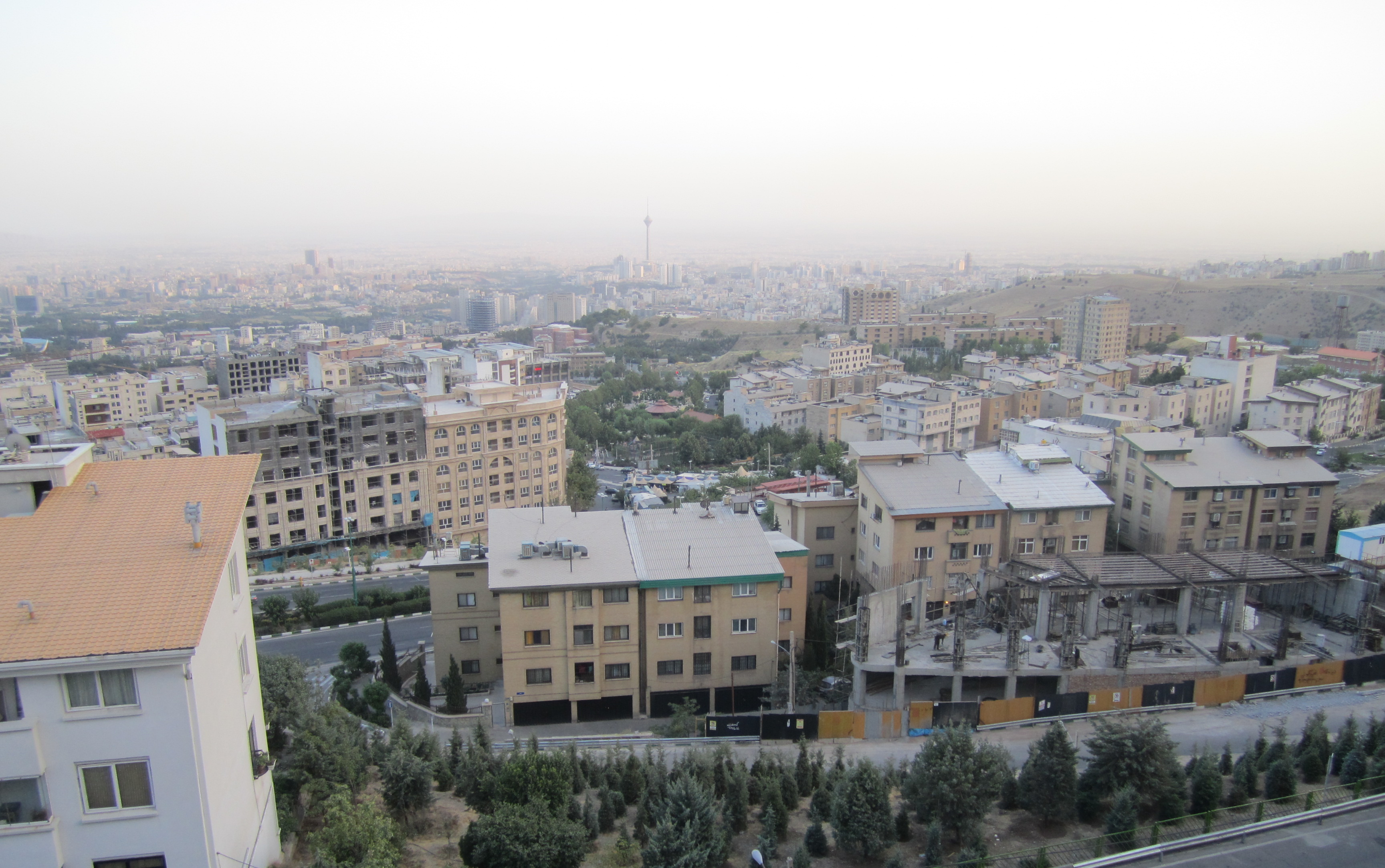 Tehran view from Velenjak neighborhood[1]